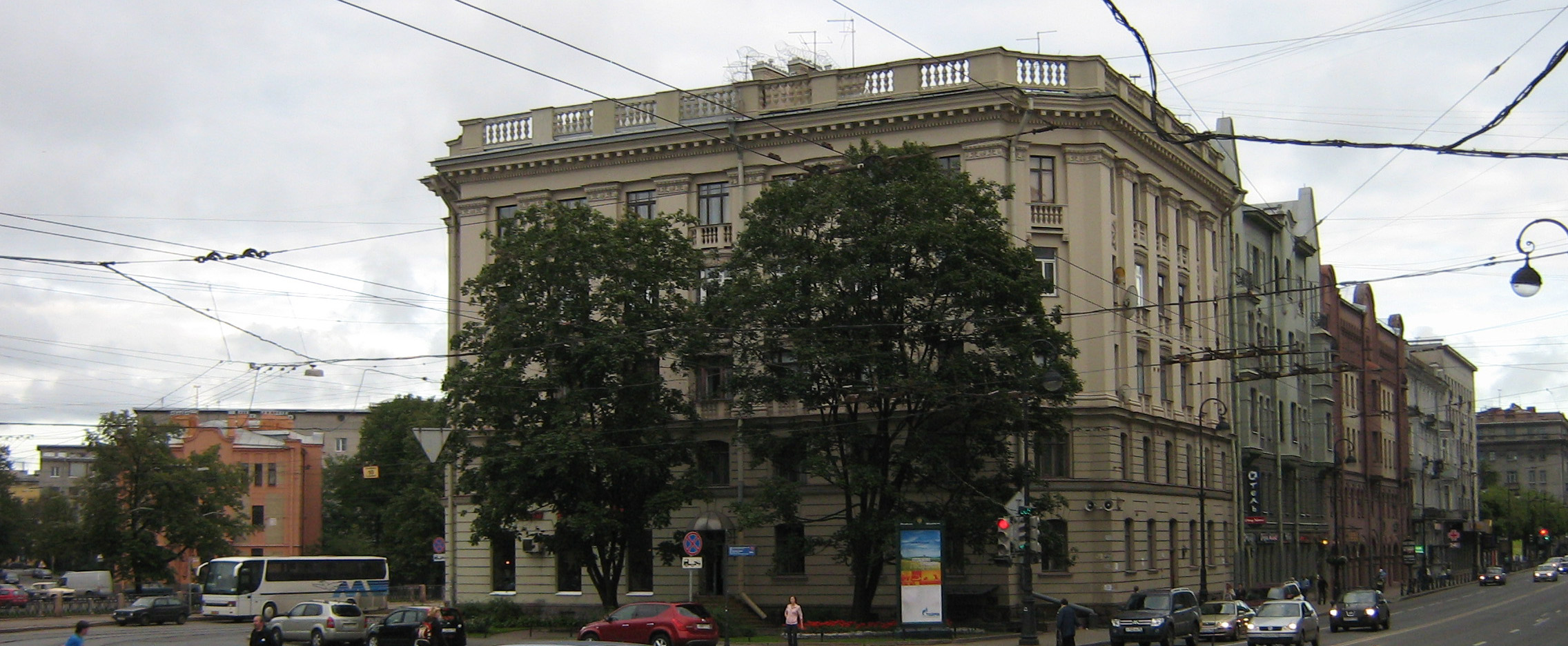 47, Kamennoostrovsky Prospekt, Saint-Petersburg, Russia.